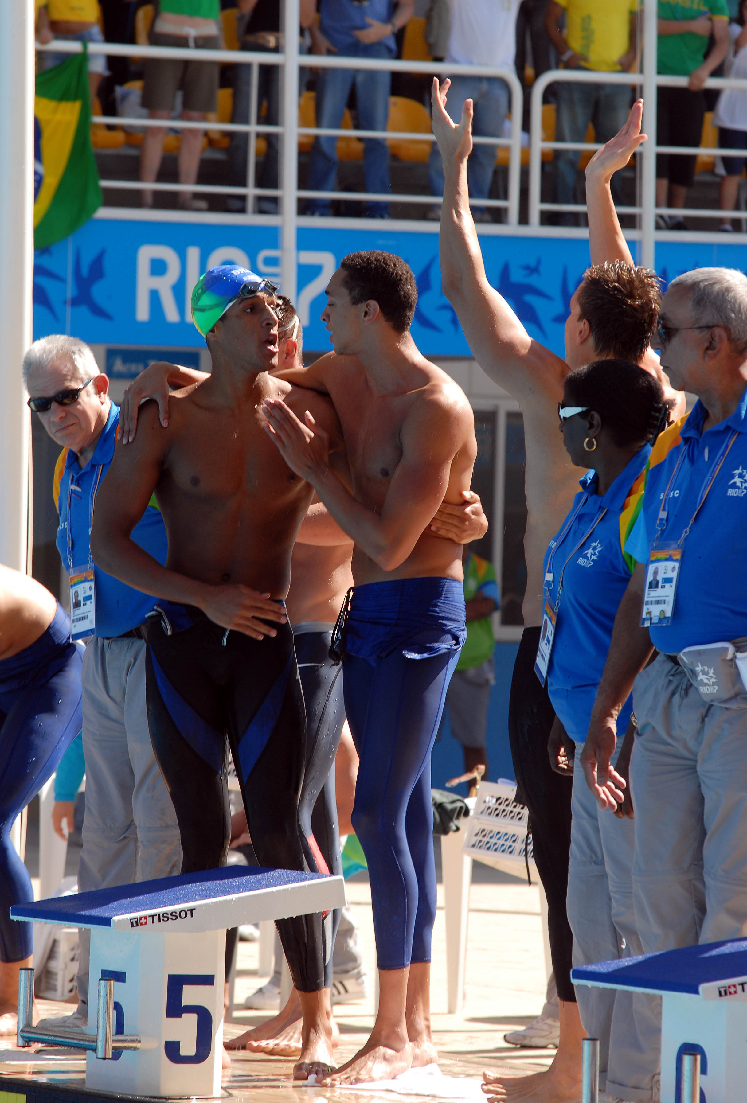 Brazilian team celebrates the gold medal in 4x100m medley (Rio 2007 Pan-American Games)